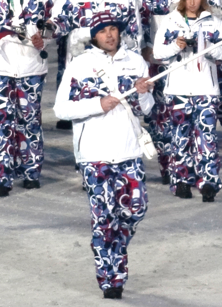 The athletes from the Czech Republic entering the stadium at the opening ceremonies of the 2010 Winter Olympics